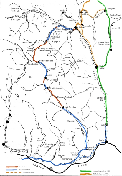 Hand-drawn by author